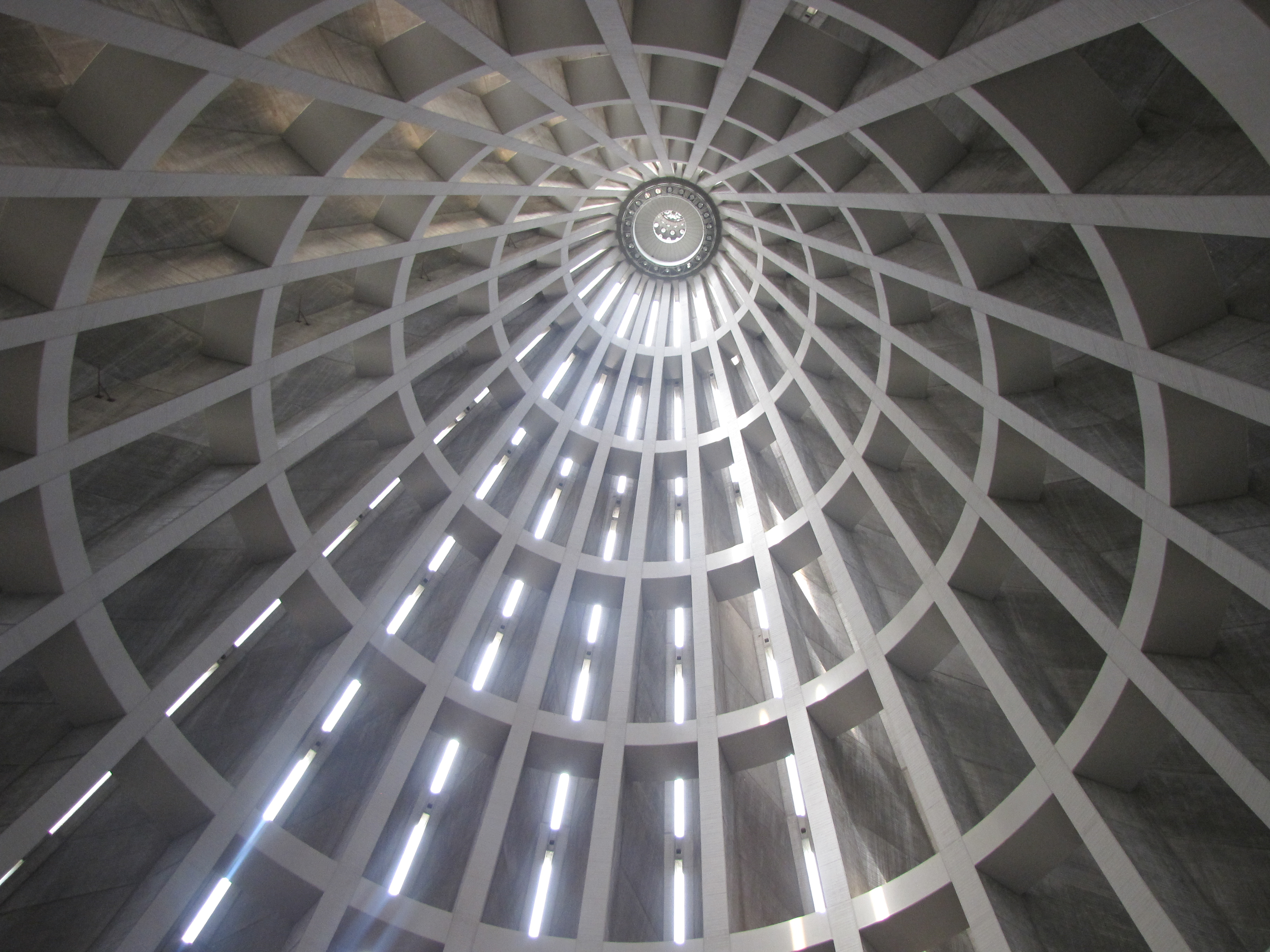 Cathedral of the Holy Mary, Syracuse-Sicily, Italy